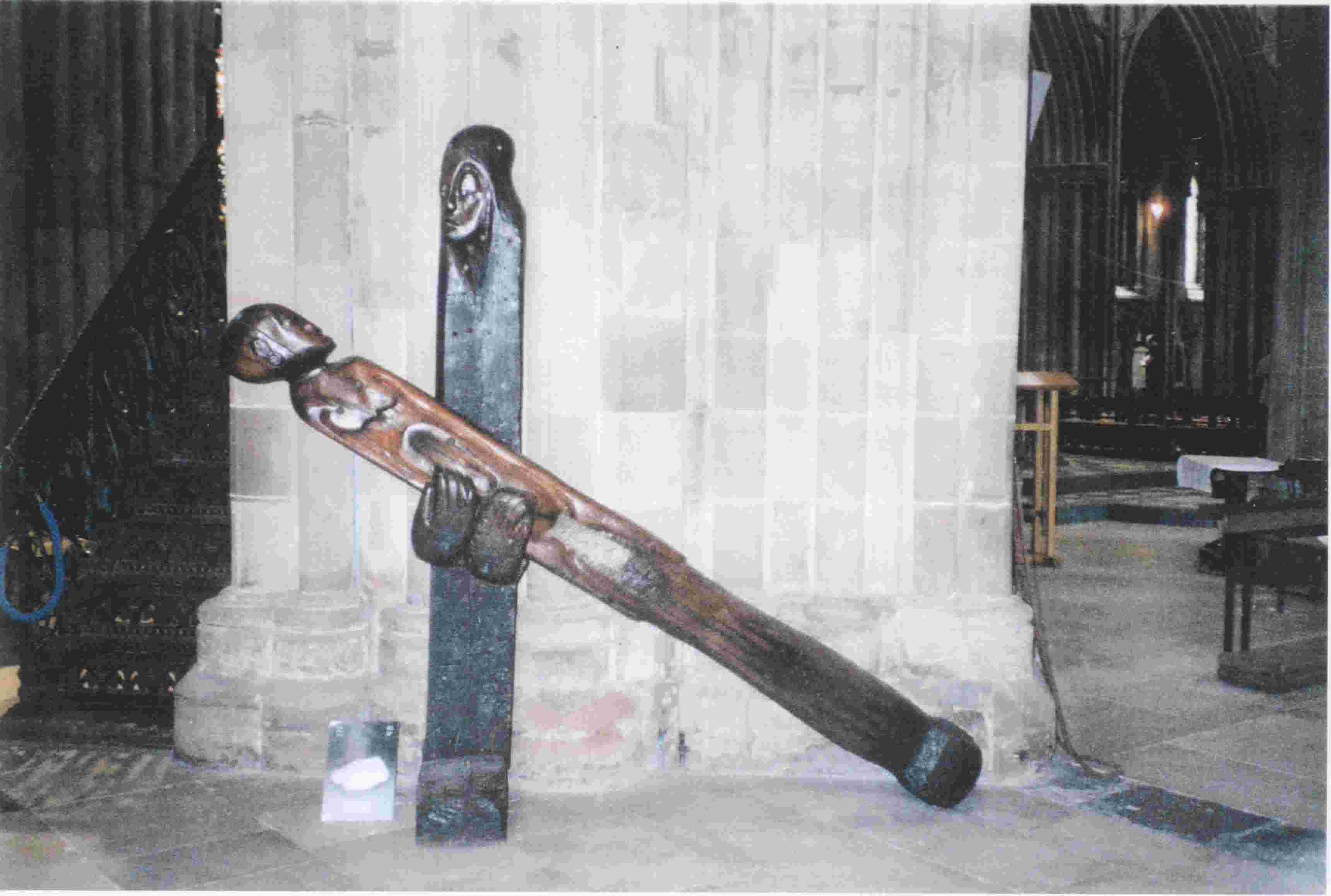 Tsamaya Sentle (Setswana for “Go Gently with Life”) by Rita Phillips. The work has been displayed in various locations; here it is shown in Christchuirch University, Oxford